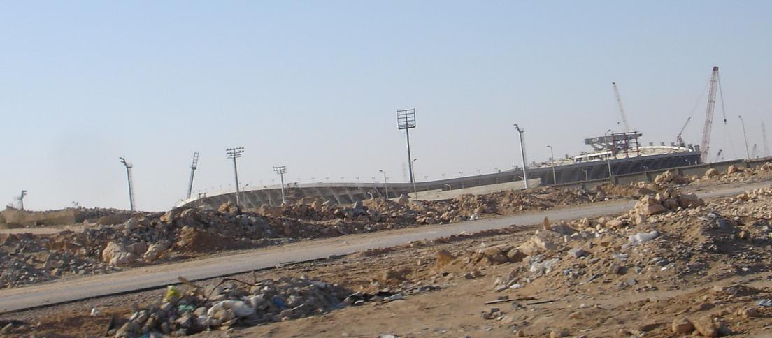 The stadium under construction on November 14th 2005.